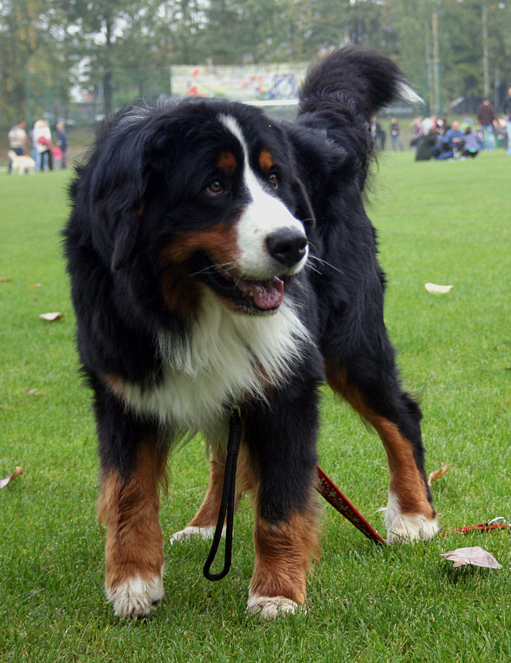 Bernese Mountain Dog during Dogs Show in Rybnik.